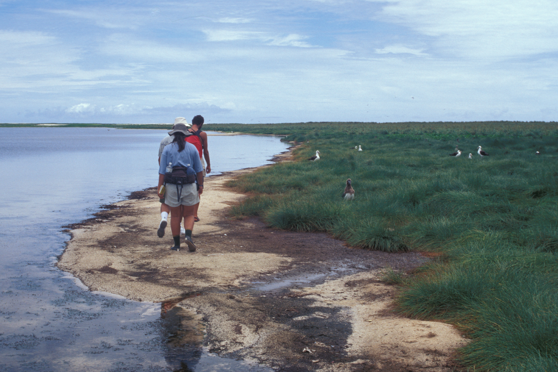 Cyperus laevigatus (near lagoon with Alex Dave and Kim). Location: Laysan Island, By lagoon